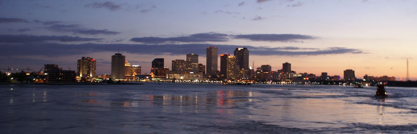 Skyline of central New Orleans from the Mississippi River